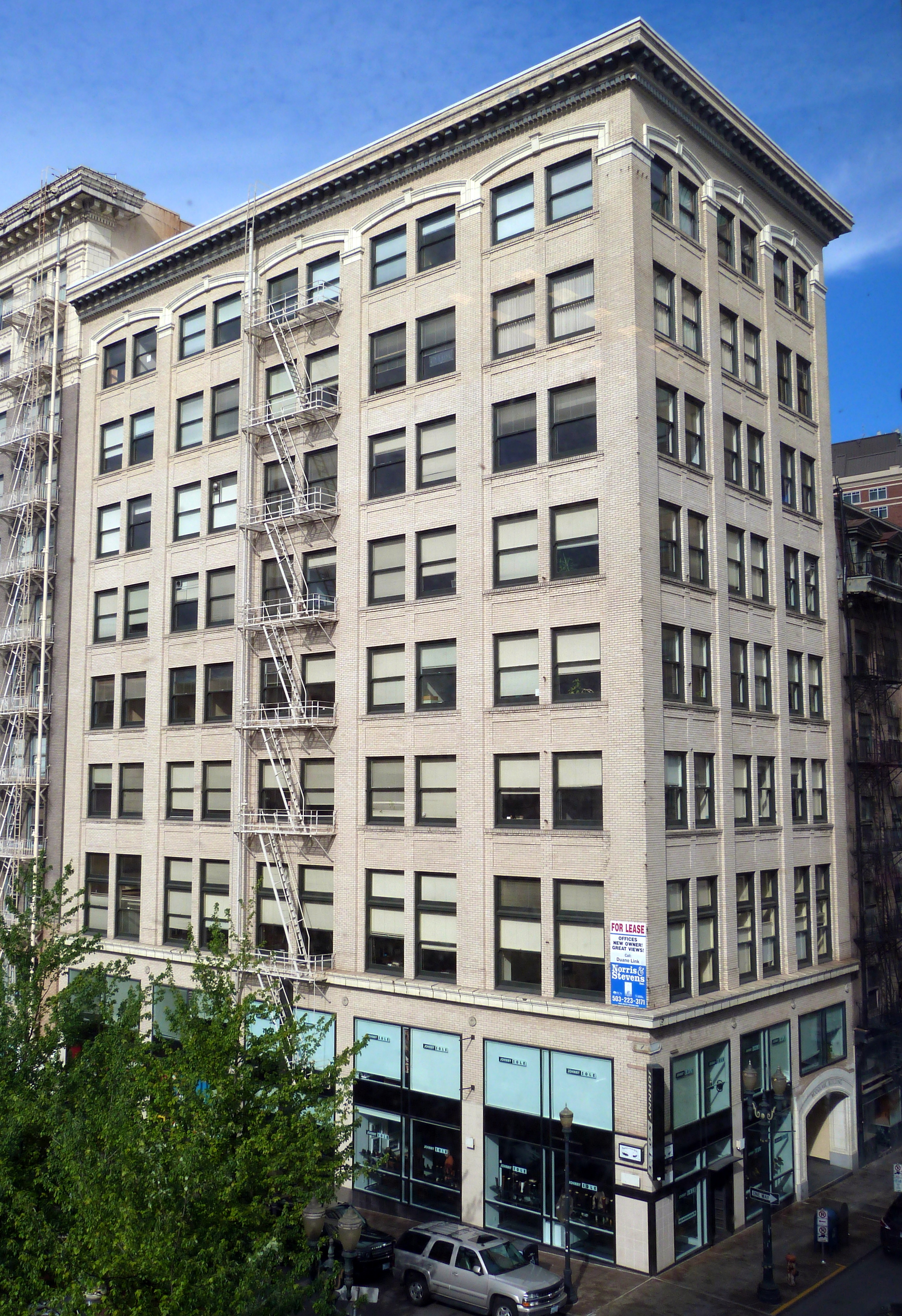 The historic Woodlark Building (built 1911–1912), located at 813–817 Southwest Alder Street in Portland, Oregon, United States, is listed on the US National Register of Historic Places. The fire escape was removed (permanently) during renovation work in 2016–2018.